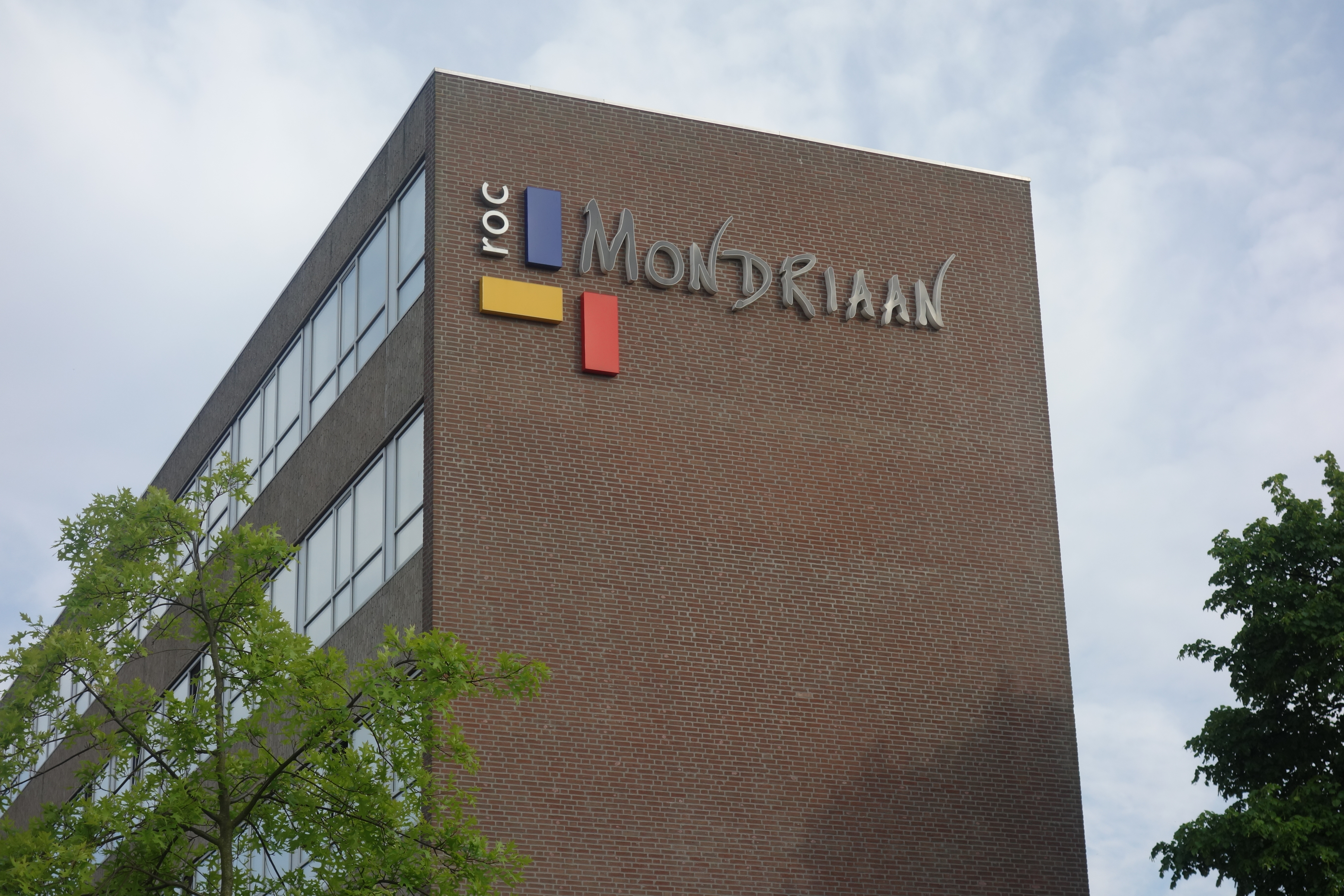 ROC Mondriaan, Vondellaan, Leiden